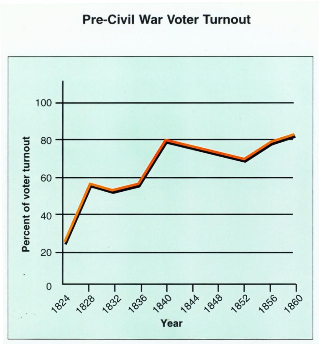 graph from Spreadsheet US turnout 19c